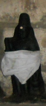 Nayanars in Thiruvalangadu temple Moorthi Nayanar Muruga Nayanar Ruthira Pasupathi Nayanar Thirunalai Povar Nayanar ThiruKkurpputhonda Nayanar Sandeswara Nayanar Thirunaavukarasa Nayanar Kulachilai Nayanar Perumizhalaikurumba Nayanar Karaikal Ammaiyar Neelanakka Nayanar Naminathiadikal Nayanar Thirugnanan Sambandar Kalikama Nayanar Thirumula Nayanar